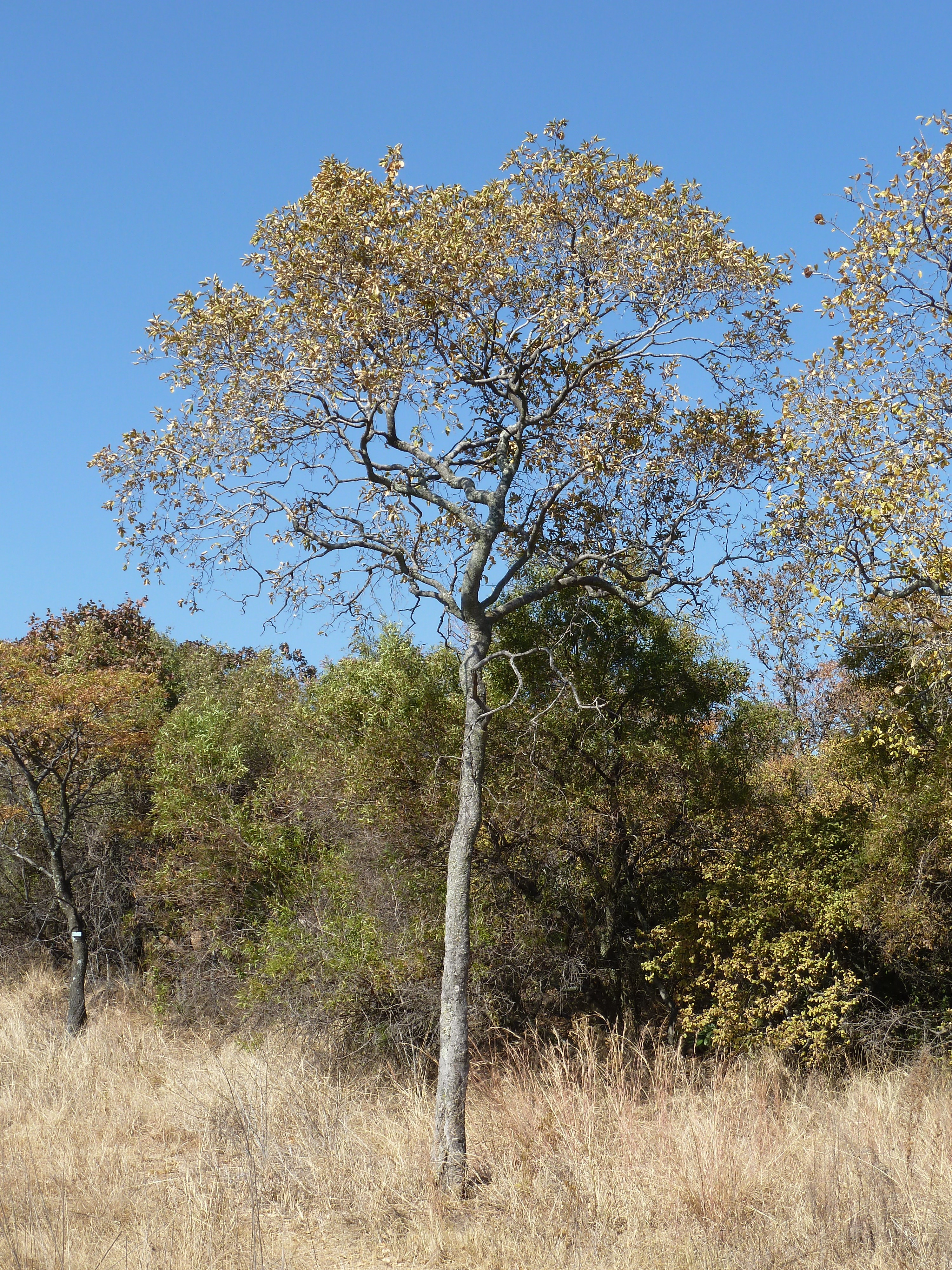 Velvet Bushwillow in Eugene Marais Park, Pretoria